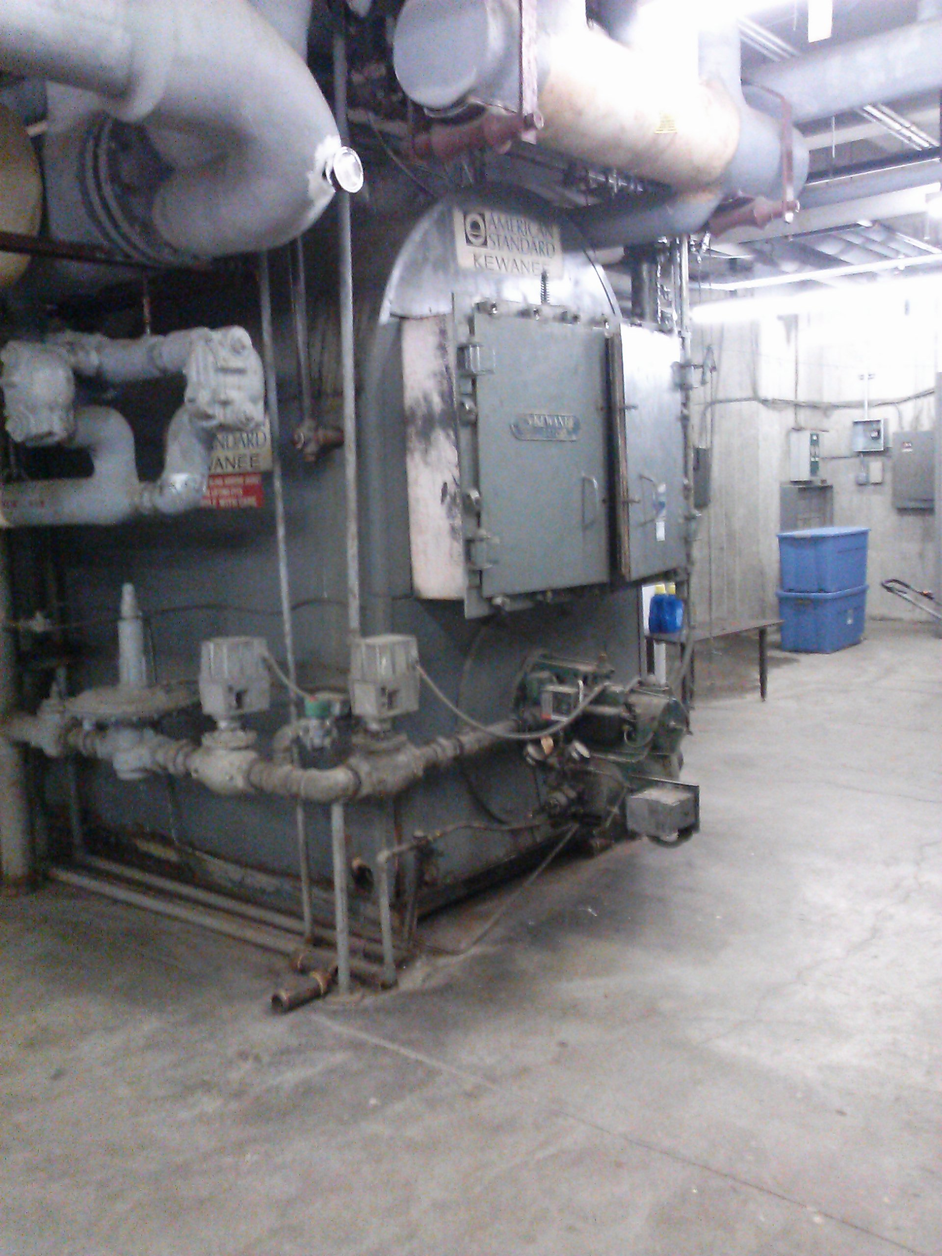 Boiler manufactured by Kewanee, which was a part of American Standard at the time this boiler was made. This boiler was made in the late 1960s early 1970s.